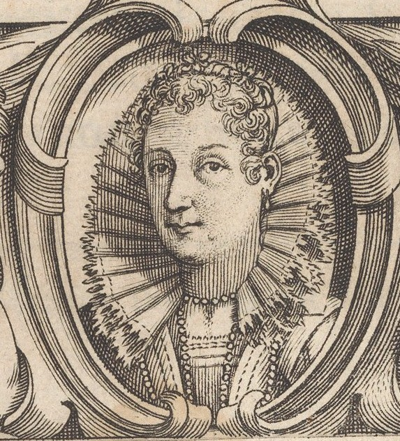 Books Prints Ornament & Architecture; Books